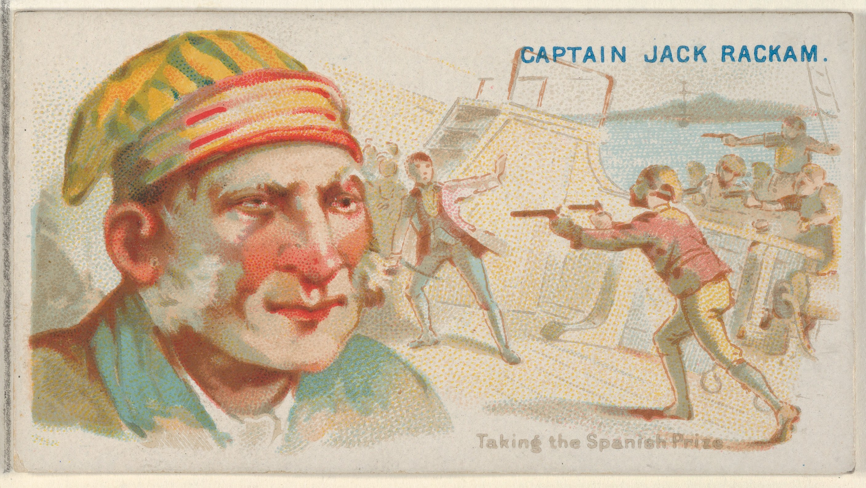 Print; Prints